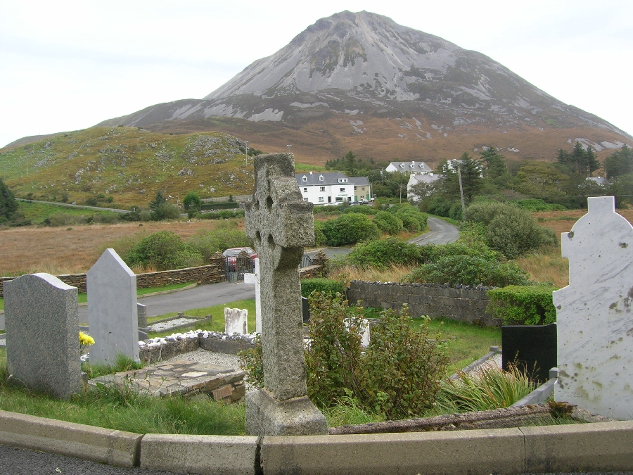 Mount Errigal, from Dunlewy, County Donegal, Ireland